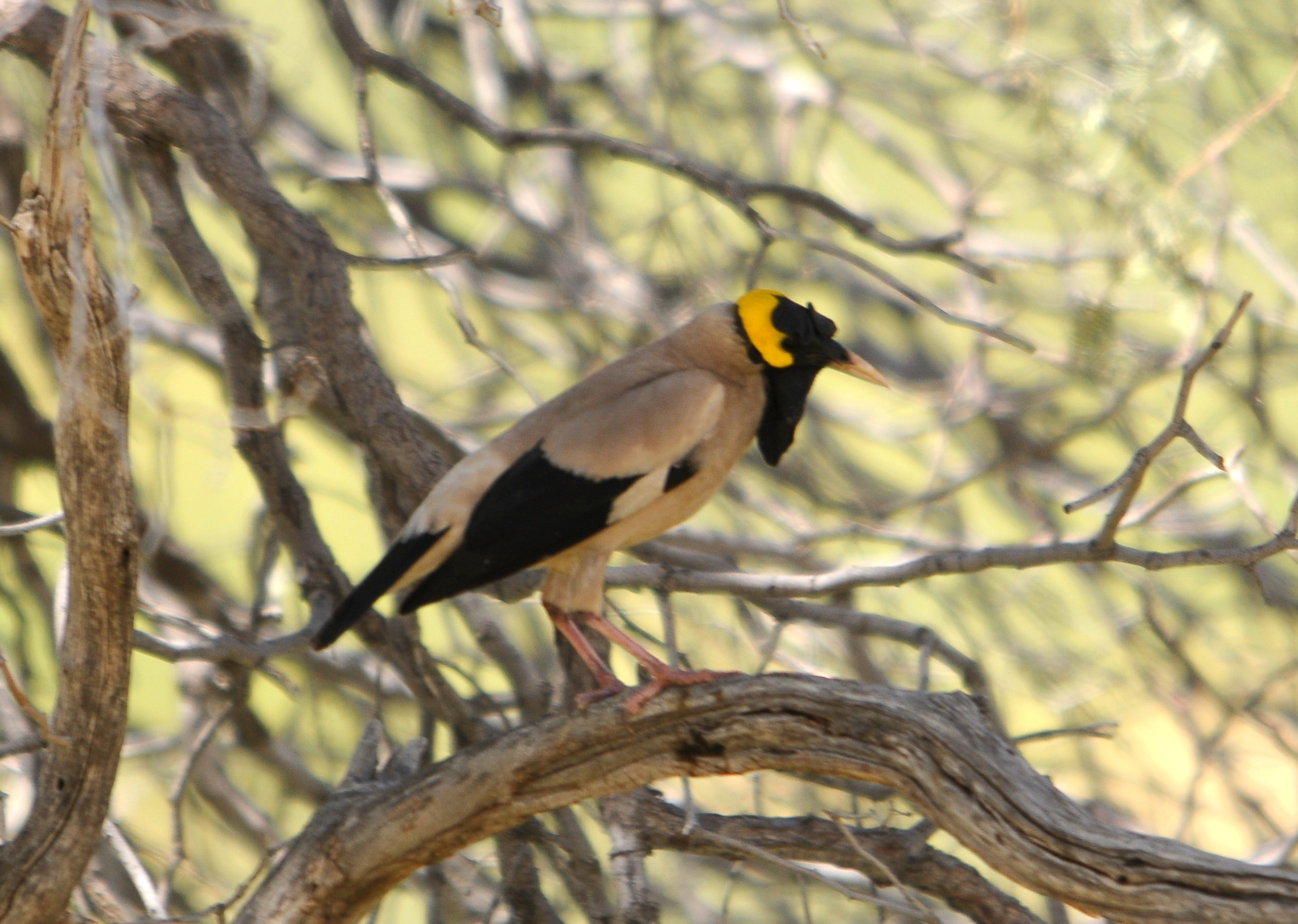 Wattled Starling Creatophora cinerea, Kgalagadi Transfrontier Park, Botswana